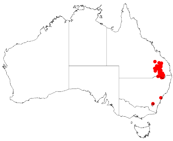 Acacia semilunata Occurrence data from Australasia Virtual Herbarium downloaded from on 8 December 2018